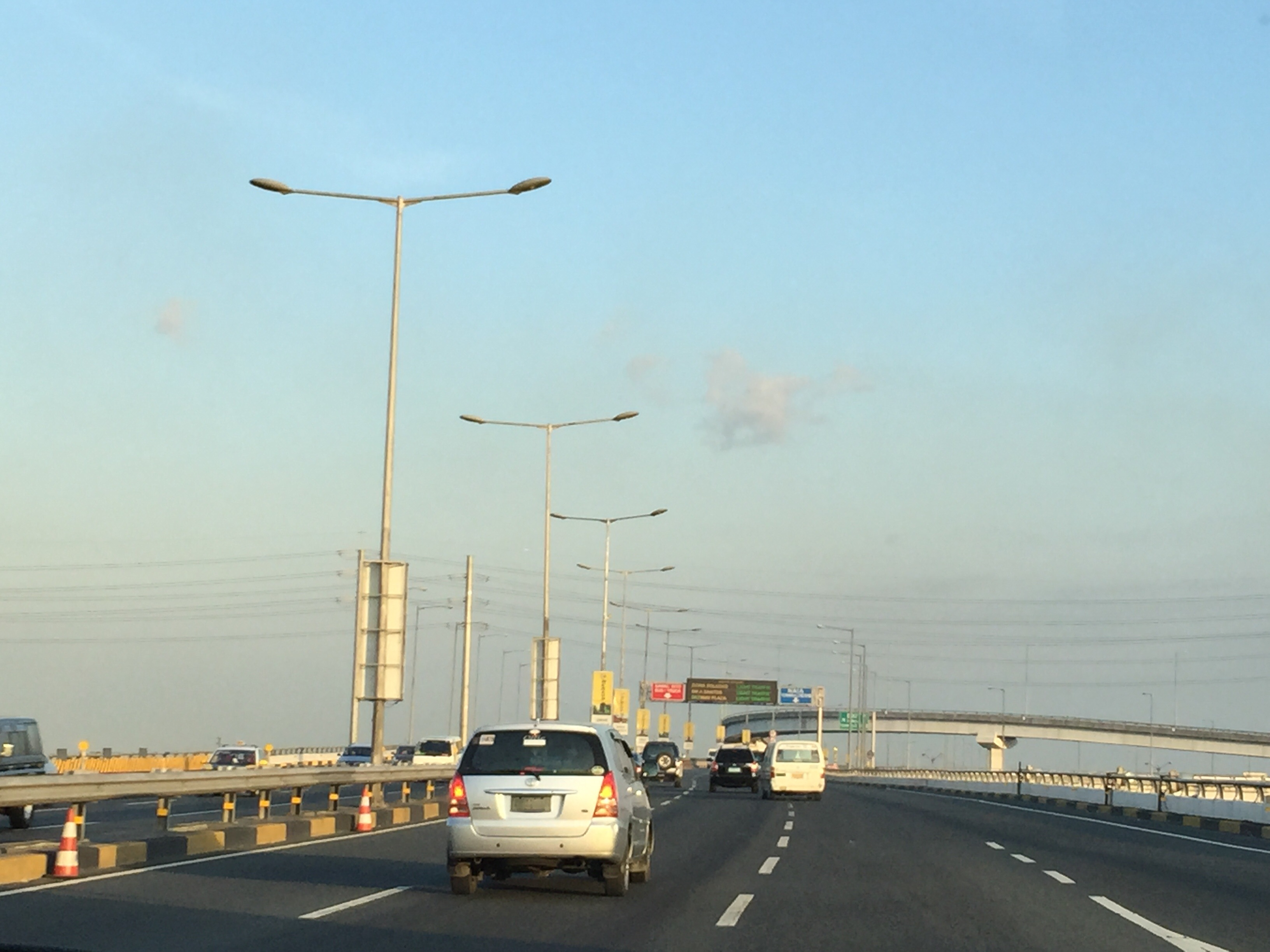 The Metro Manila Skyway heading southbound towards the NAIA Interchange, Pasay, Metro Manila, Philippines